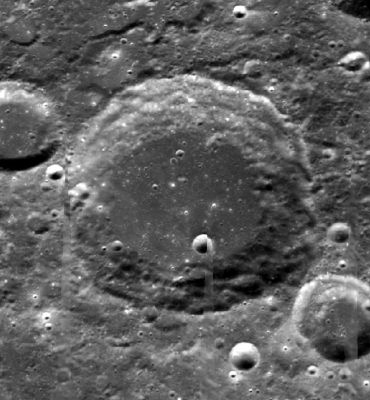 Clementine image from Map-A-Planet.